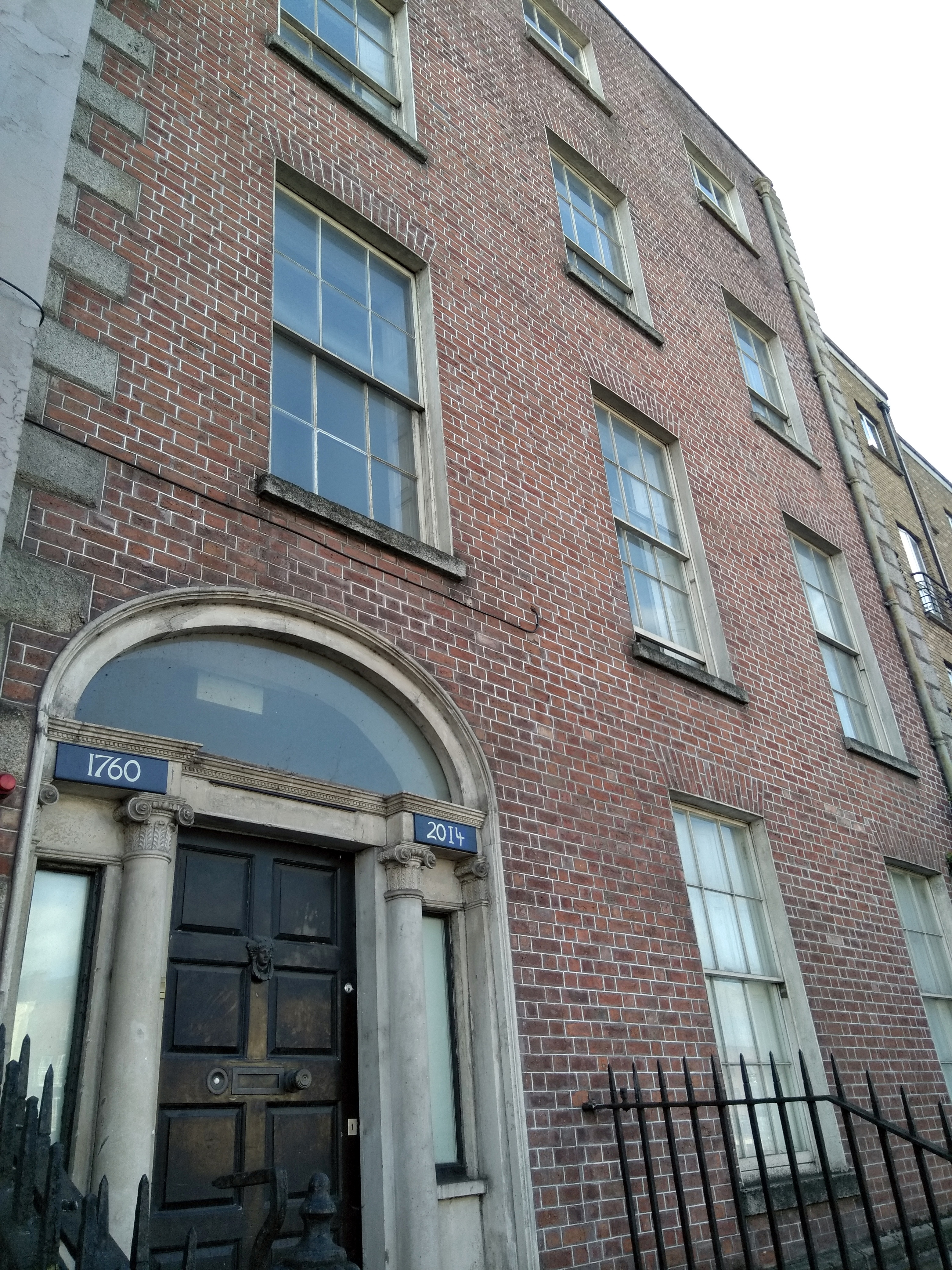 County Dublin, James Joyce House of the Dead. Wikidata has entry Q55049827 with data related to this item.